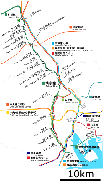 Map of JR Saikyo Line.